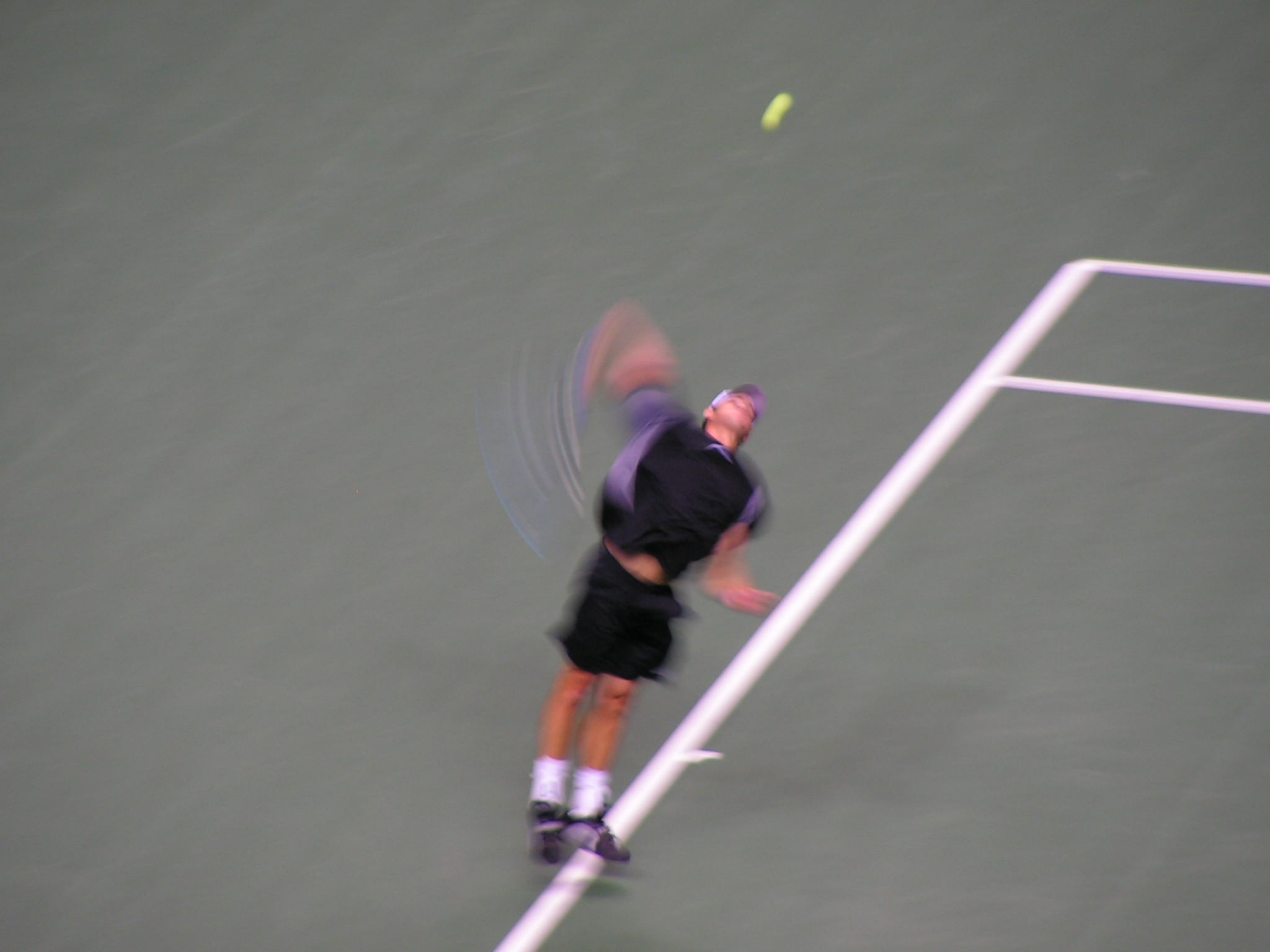 Andy Roddick holds the record for the fasted ever recorded serve. In a 6-1, 6-4, 6-4 Davis Cup win over Vladimir Voltchkov he recorded a 155 mph (249 km/h) serve.[1].